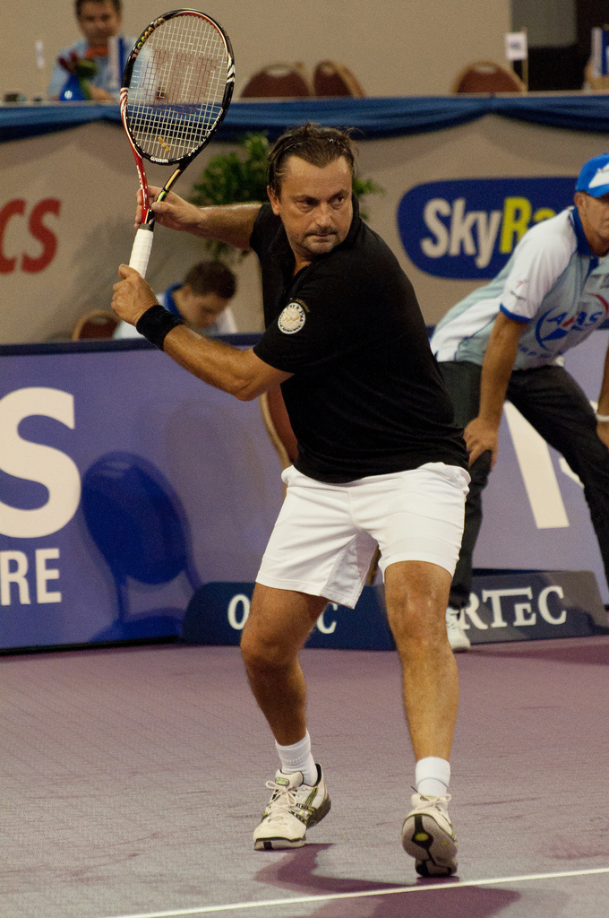 Henri Leconte preparing for a backhand at the AFAS Tennis Classics 2010 in Eindhoven, The Netherlands.